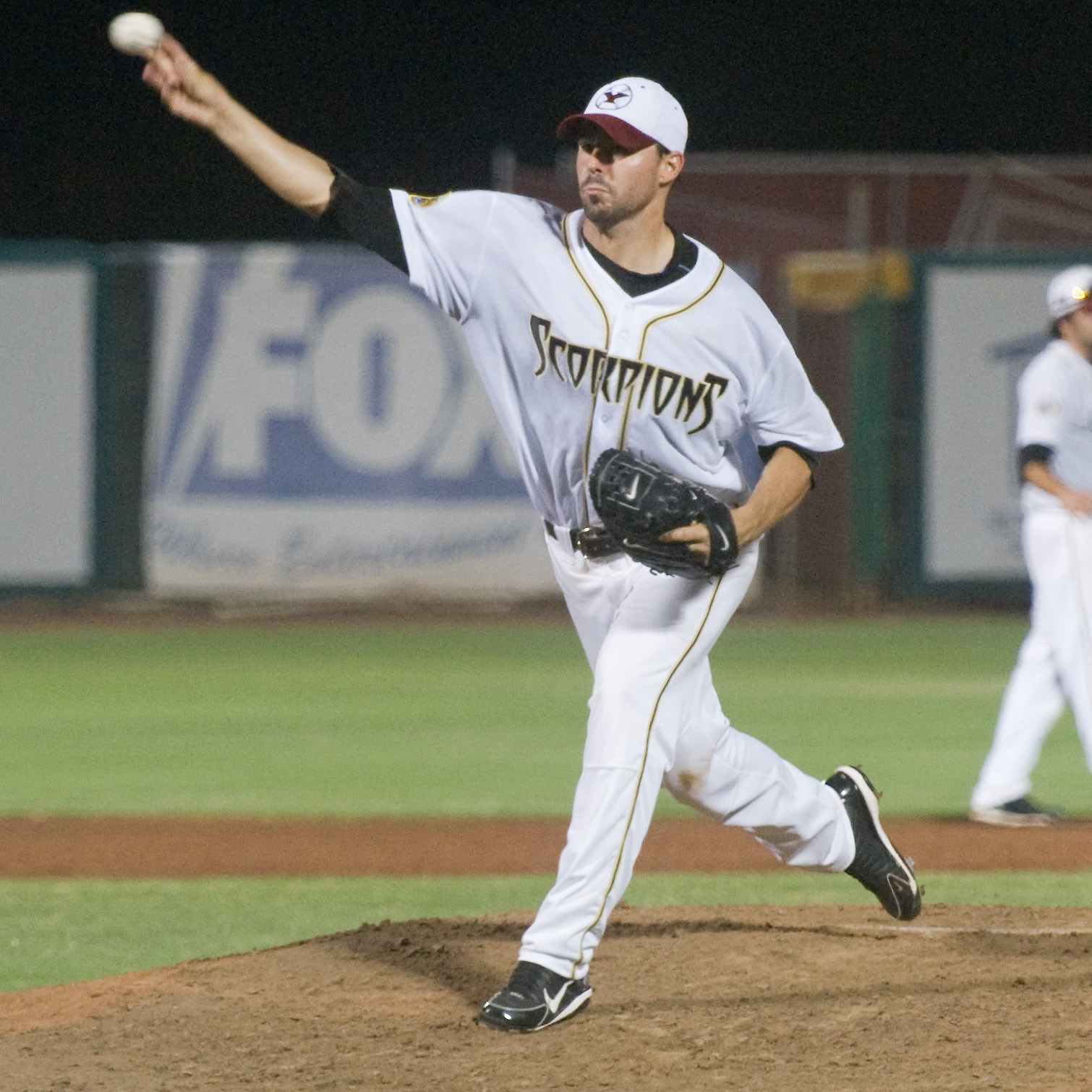 Mike Esposito throws warm up pitches for the Yuma Scorpions in 2008.